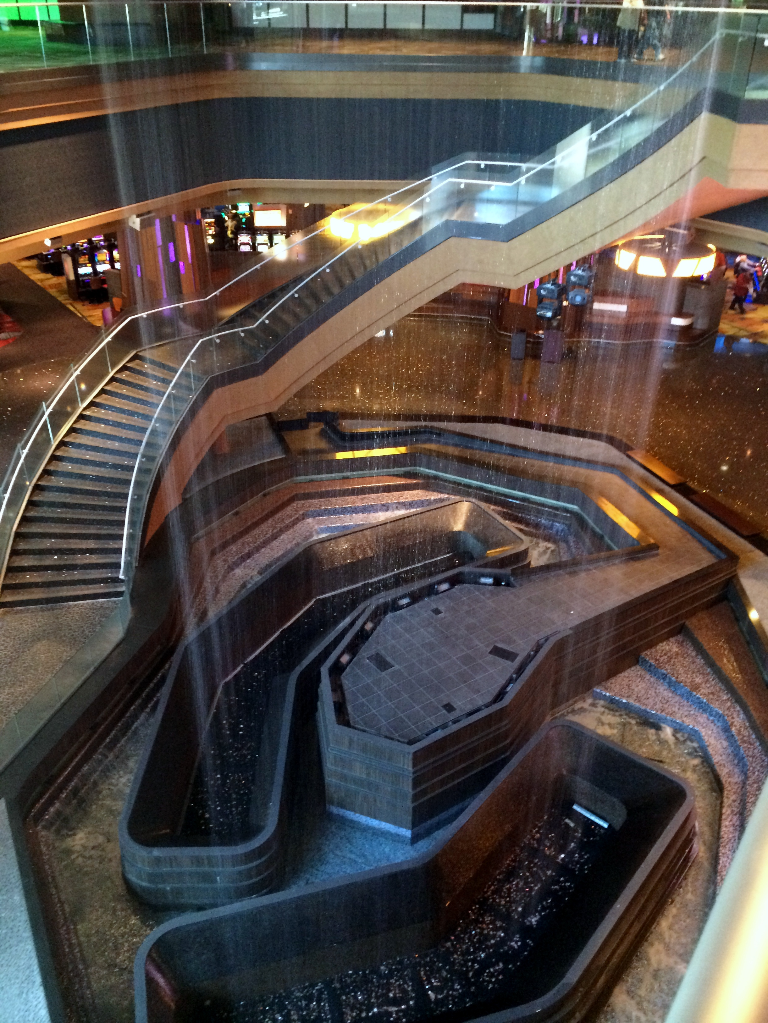 Cherokee - Harrah's Casino Cherokee - Lobby - Waterfall